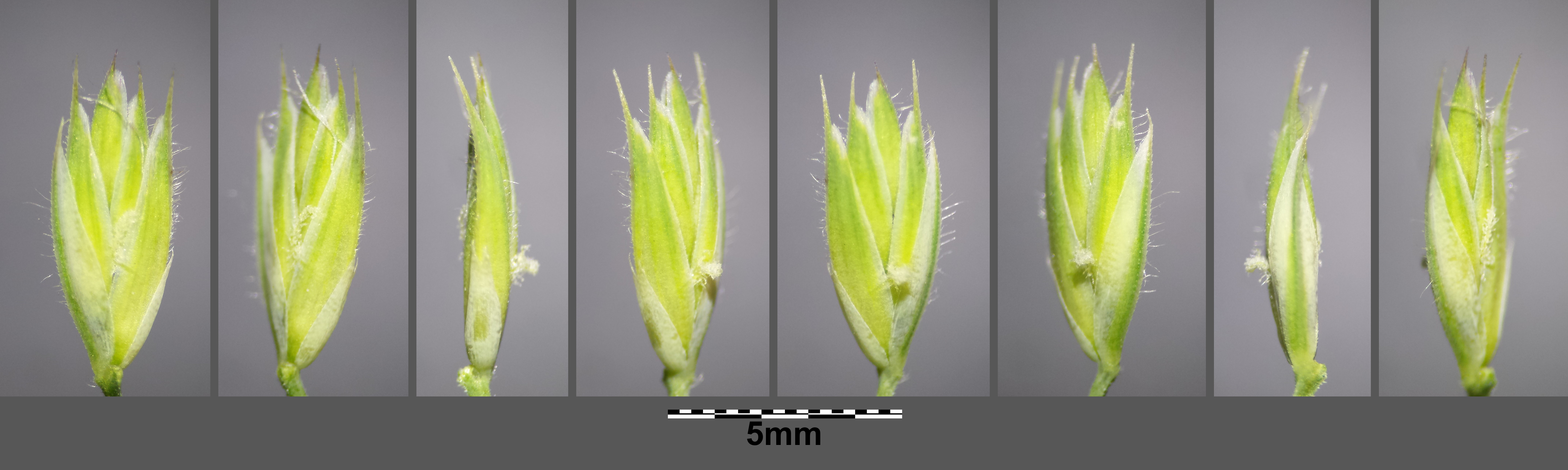 Spikelet Taxonym: Dactylis glomerata subsp. glomerata ss Fischer et al. EfÖLS 2008 ISBN 978-3-85474-187-9 Location: Donaupark, Vienna-Donaustadt - ca. 160 m a.s.l. Habitat: dry meadows